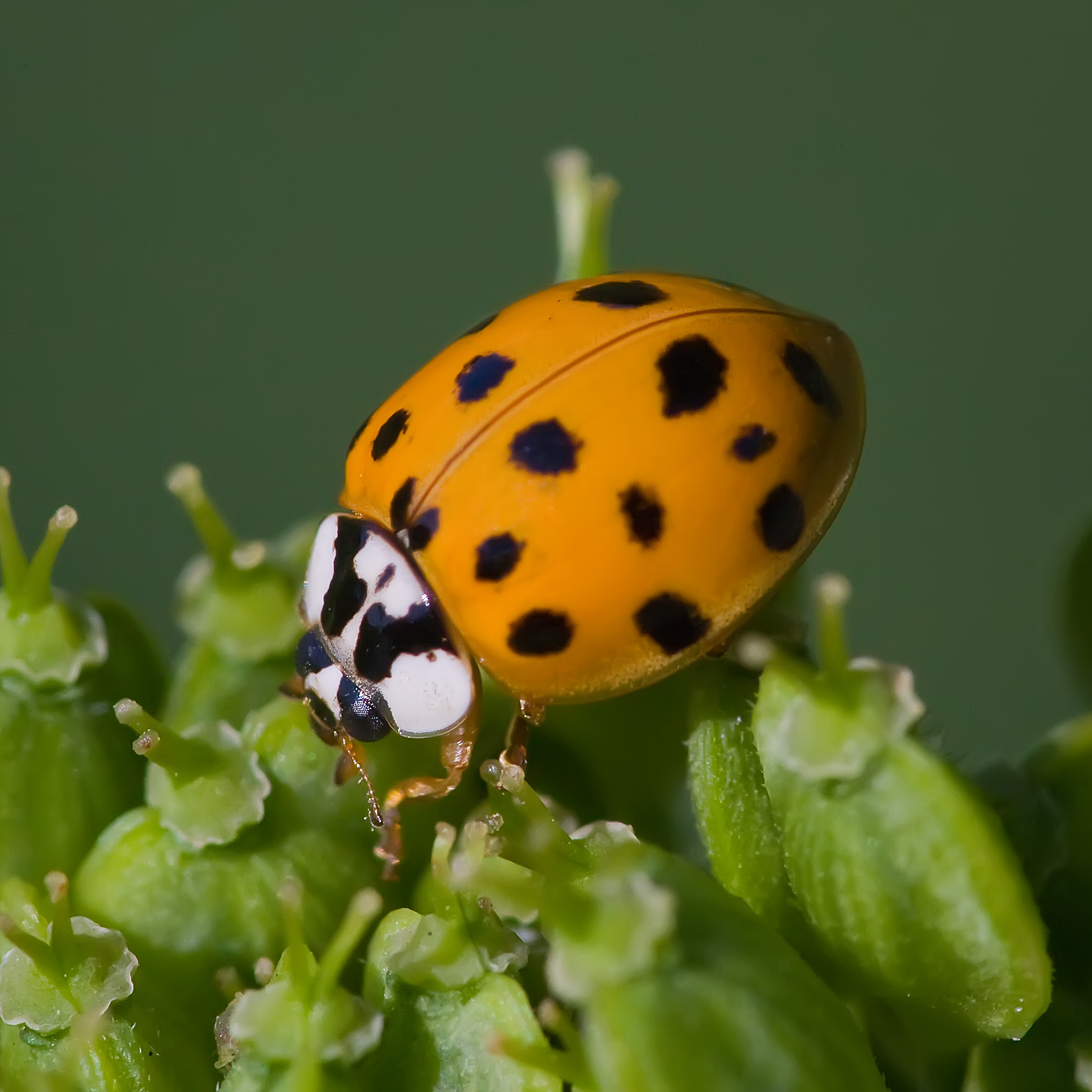 Asian lady beetle